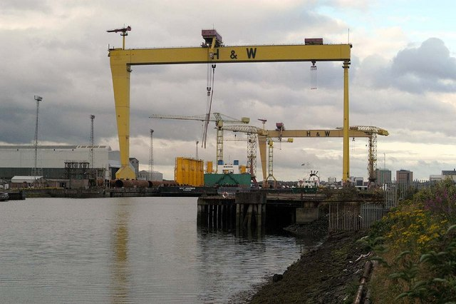 Harland & Wolff Shipyard H&W cranes, Samson and Goliath tower over the M.V. Smit Anambas